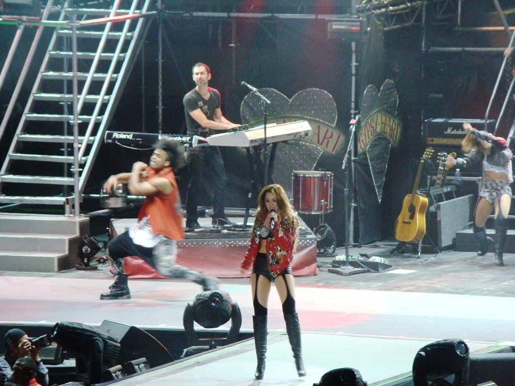 Miley Cyrus singing live in Curicica, Rio de Janeiro, RJ, BR from her tour 'Gypsy Heart'